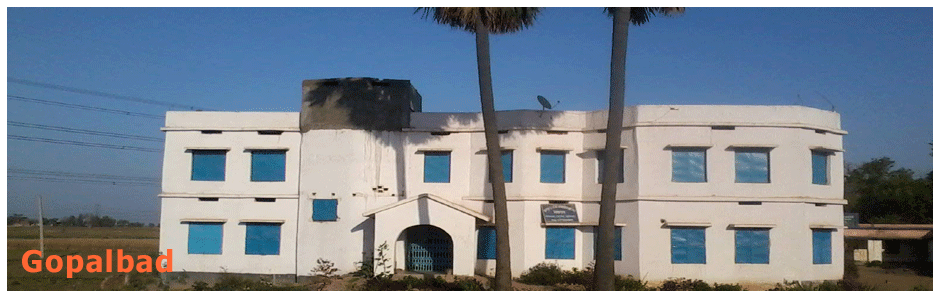 Kasturba Vidyalaya, Gopalbad